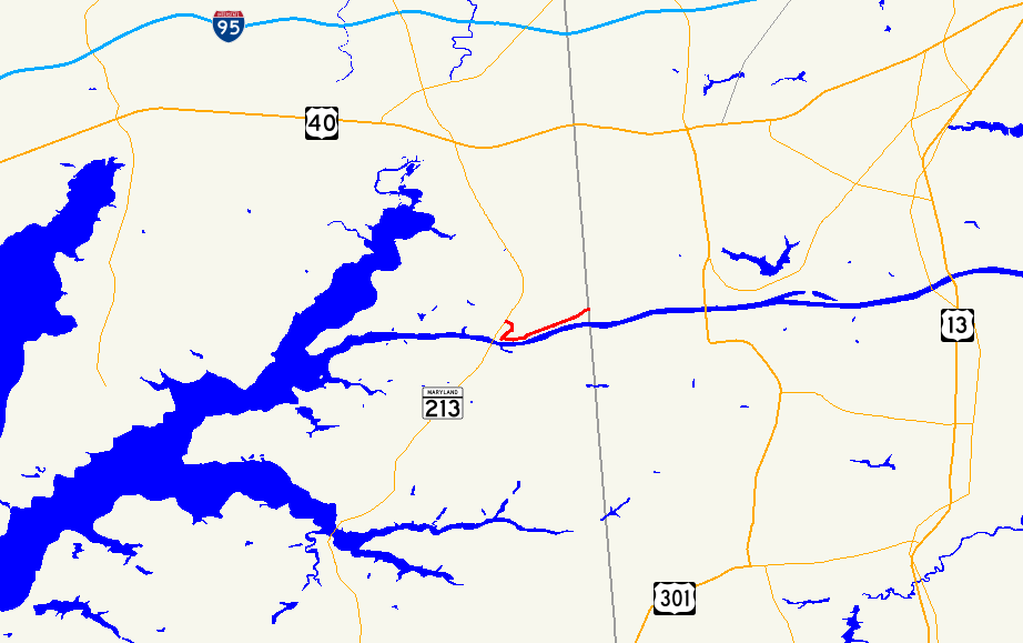 Map of Maryland Route 285